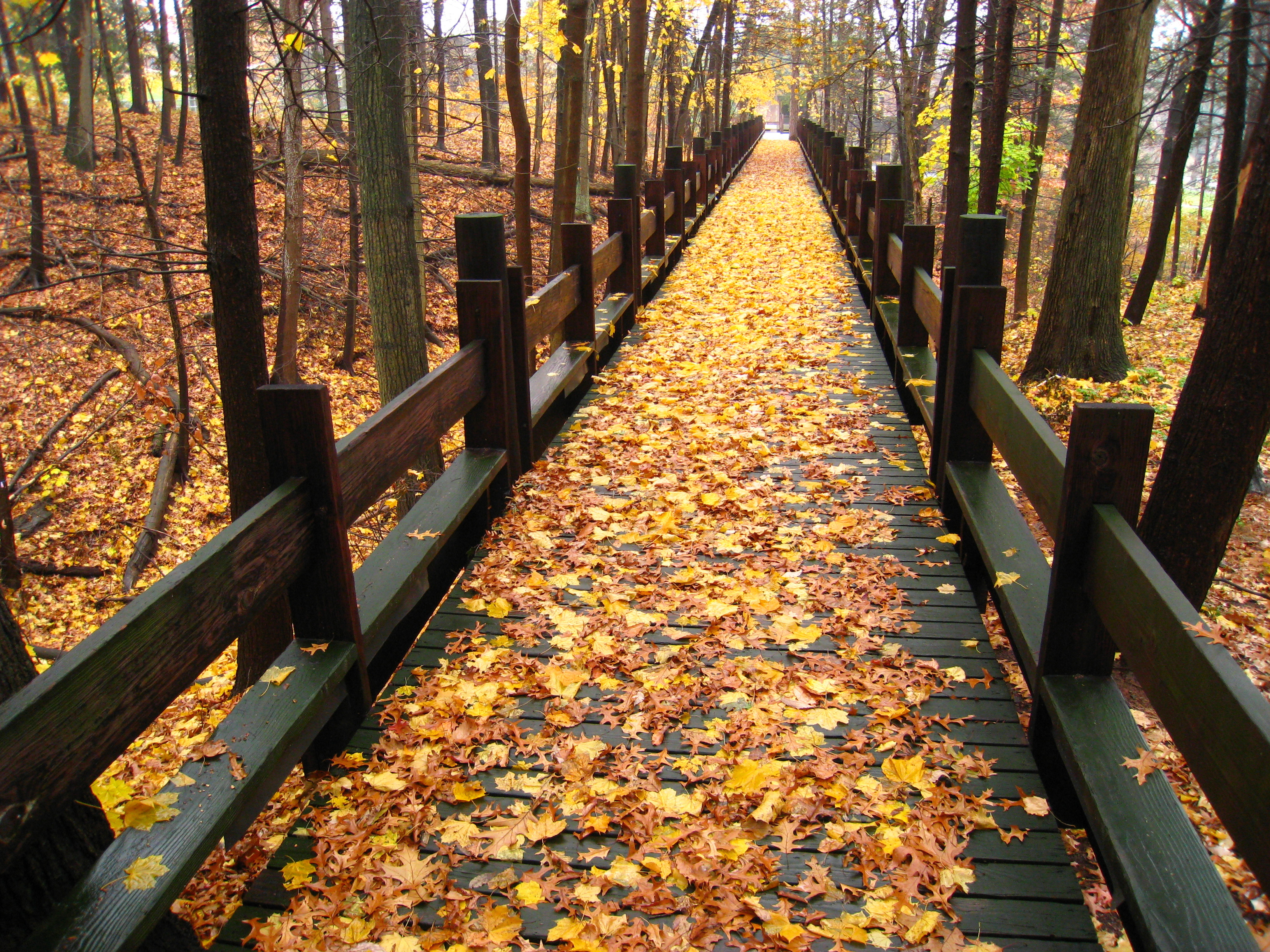 Walkway in autumn, Choate Rosemary Hall, Wallingford, Connecticut, USA.